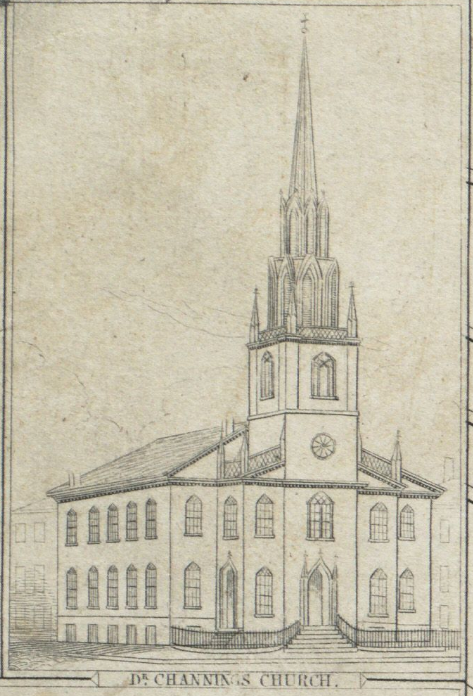 Federal Street Church, Boston. Detail of 1835 map of Boston by George W. Boynton, entitled "Plan of Boston with parts of the adjacent towns." Published by the Boston Bewick Company, 1835.